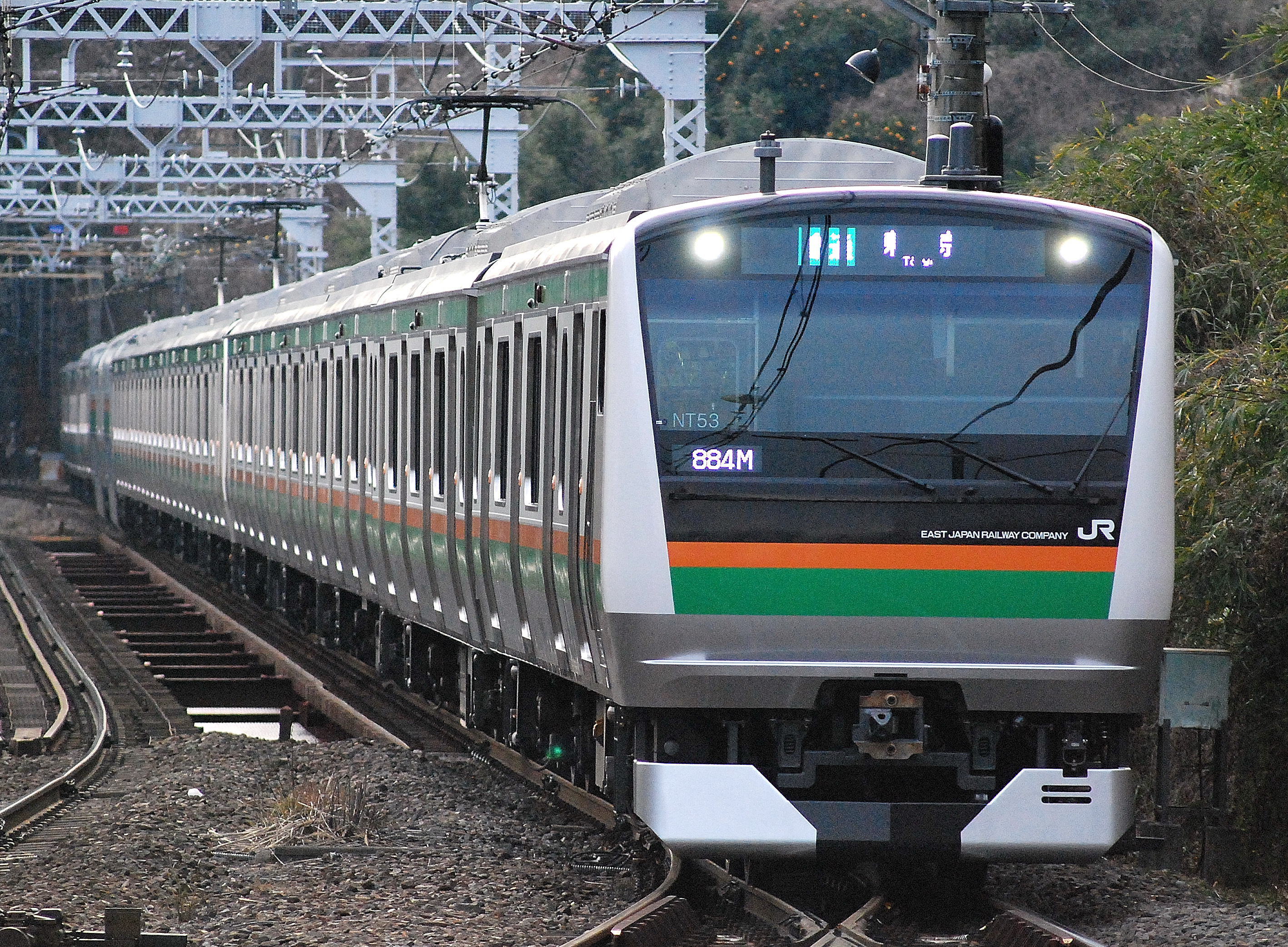 JR East E233-3000 series EMU formation consisting of sets NT3+NT53 approaching Nebukawa Station on the Tokaido Main Line